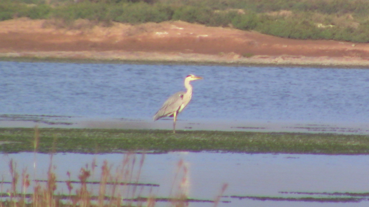 Sidi Moussa Lagoon Nature Preserve - View